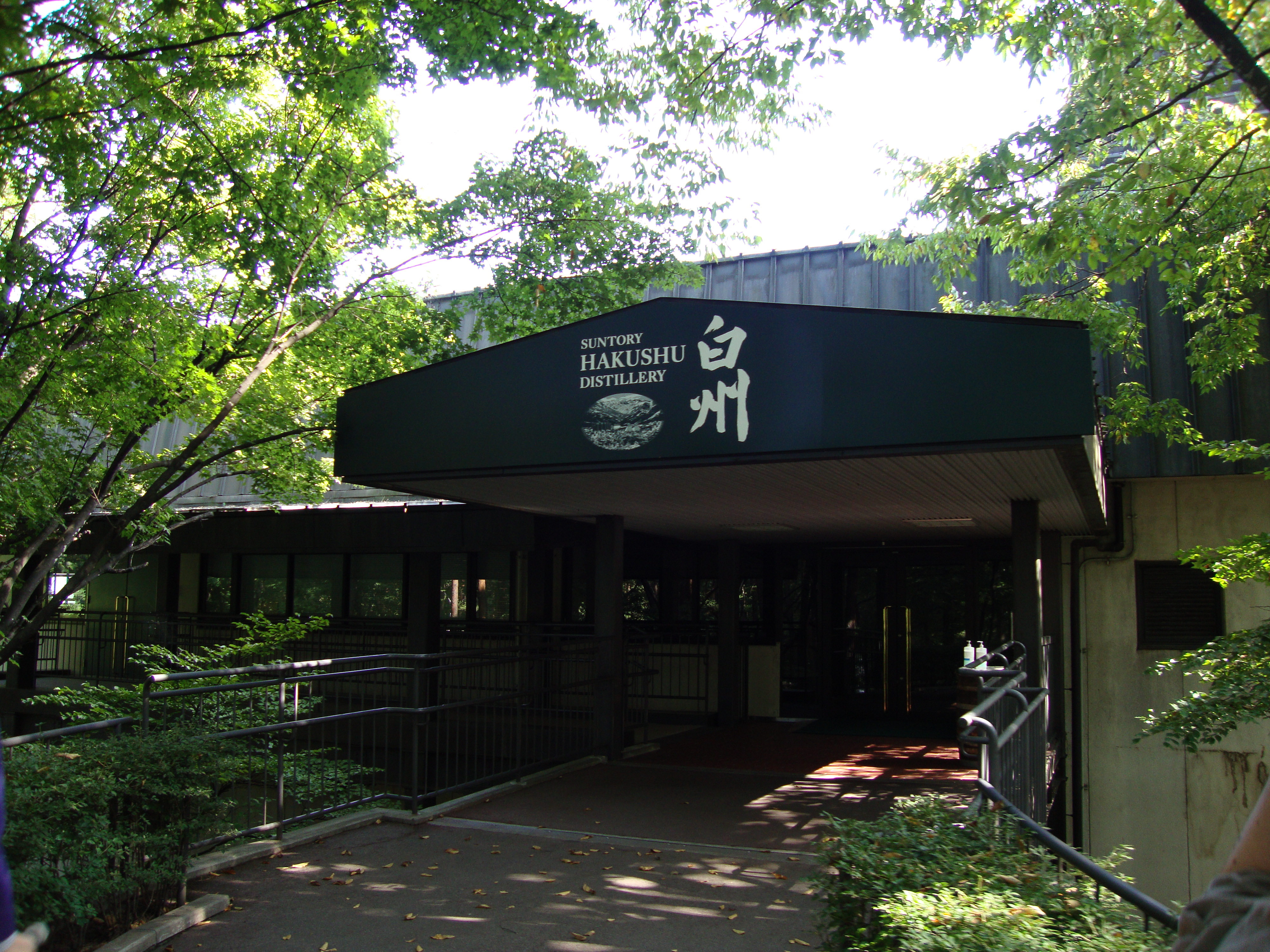 SUNTORY Hakushu Distillery